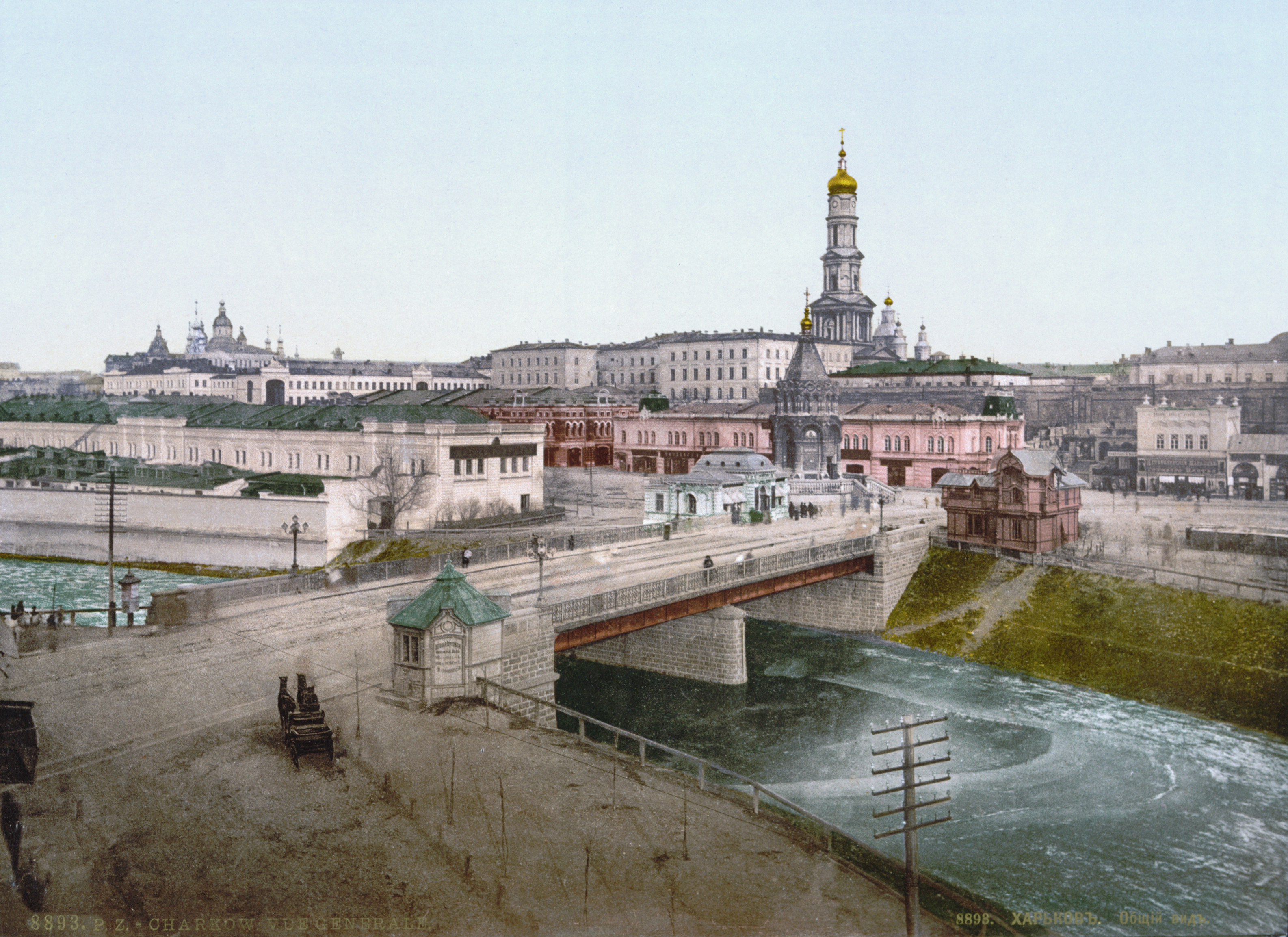 19th-century vintage postcard of Kharkov downtown.